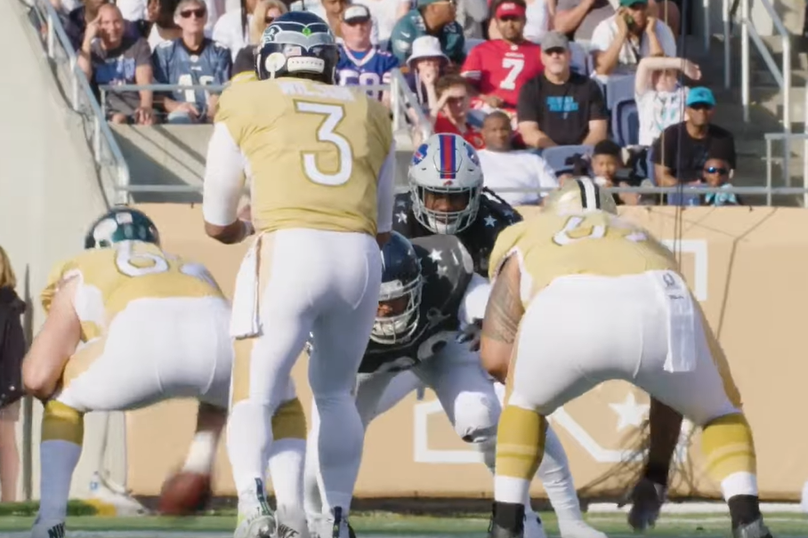 Russell Wilson in 2020